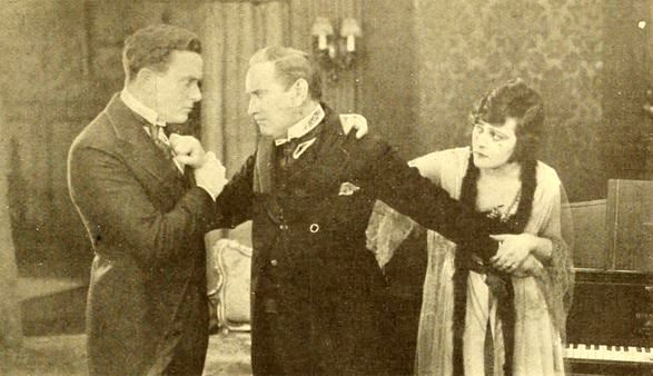 Still from the American film A House Divided (1919) with Herbert Rawlinson, Lawrence Grossmith, and Sylvia Breamer, on page 661 of the February 1, 1919 Moving Picture World.